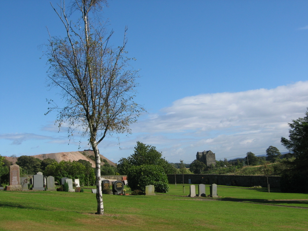 Winchburgh Cemetery, West Lothian, Scotland